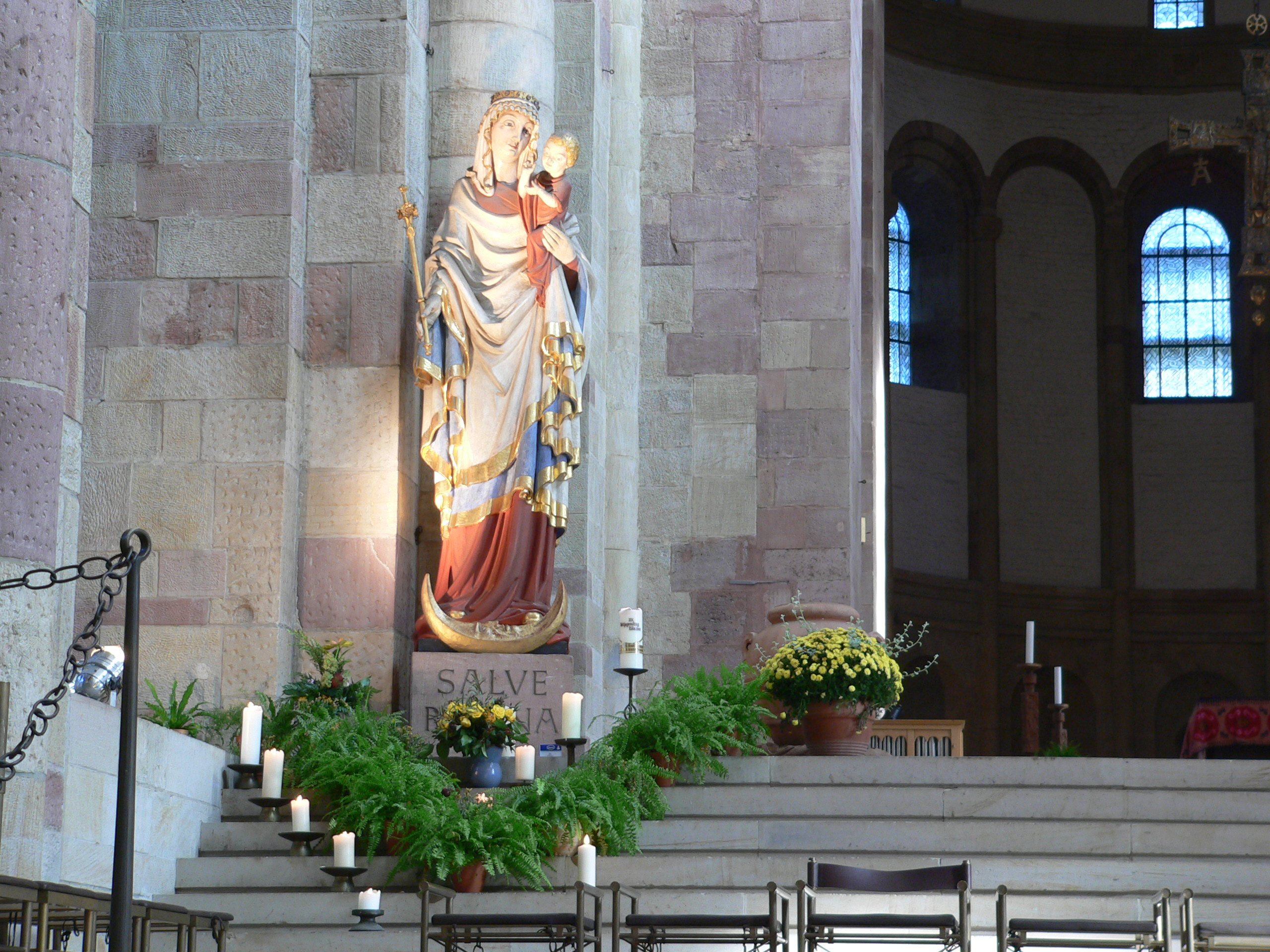 Sculpture "Salve Regina" Of The Cathedral Of Speyer, Sculptor: August Weckbecker